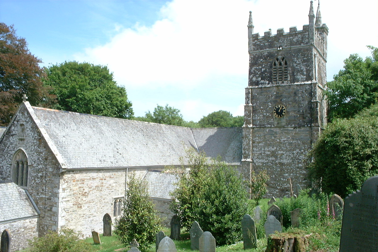 St Symphorian, Veryan